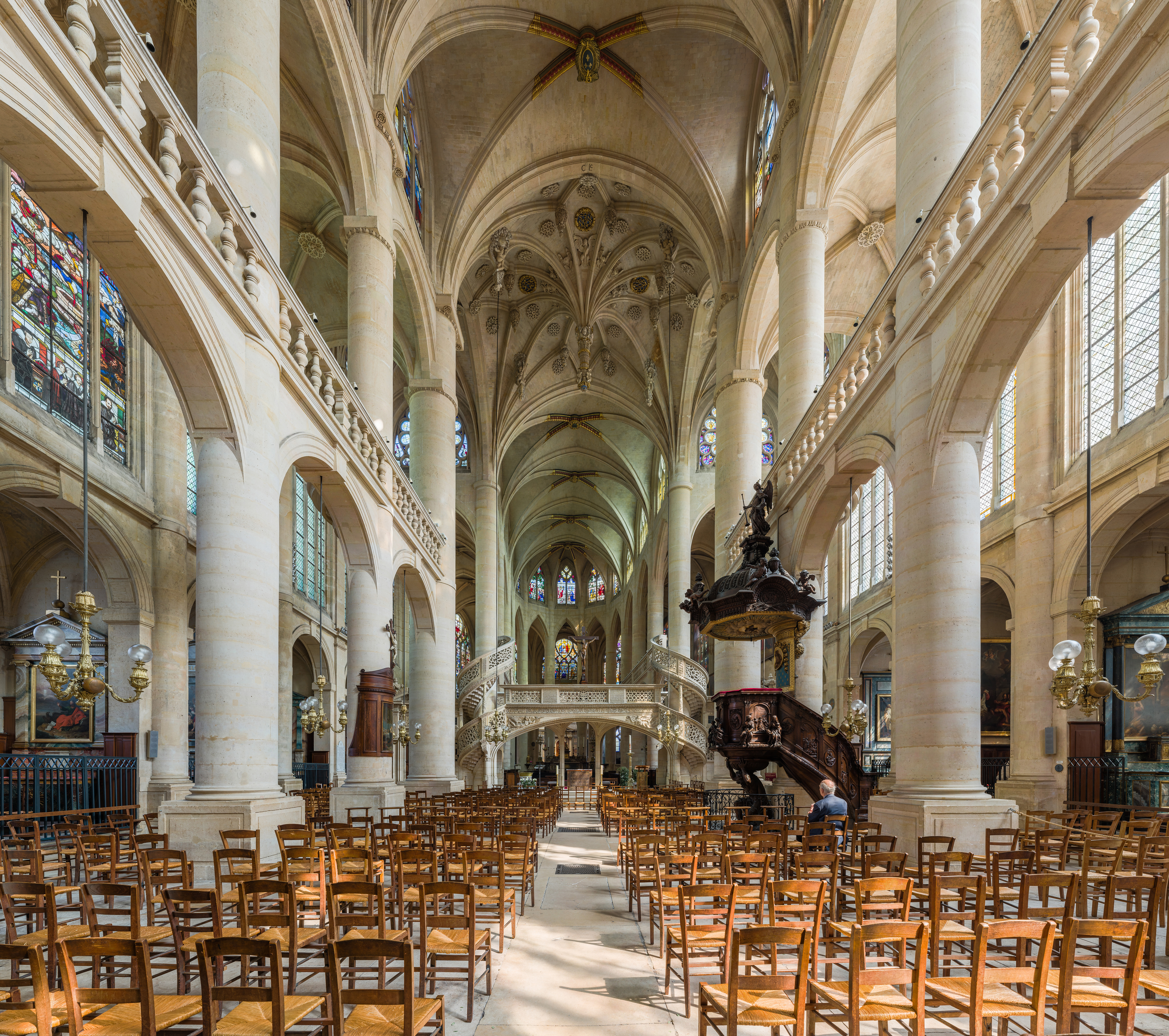 The interior of St-Etienne-du-Mont in Paris, France.